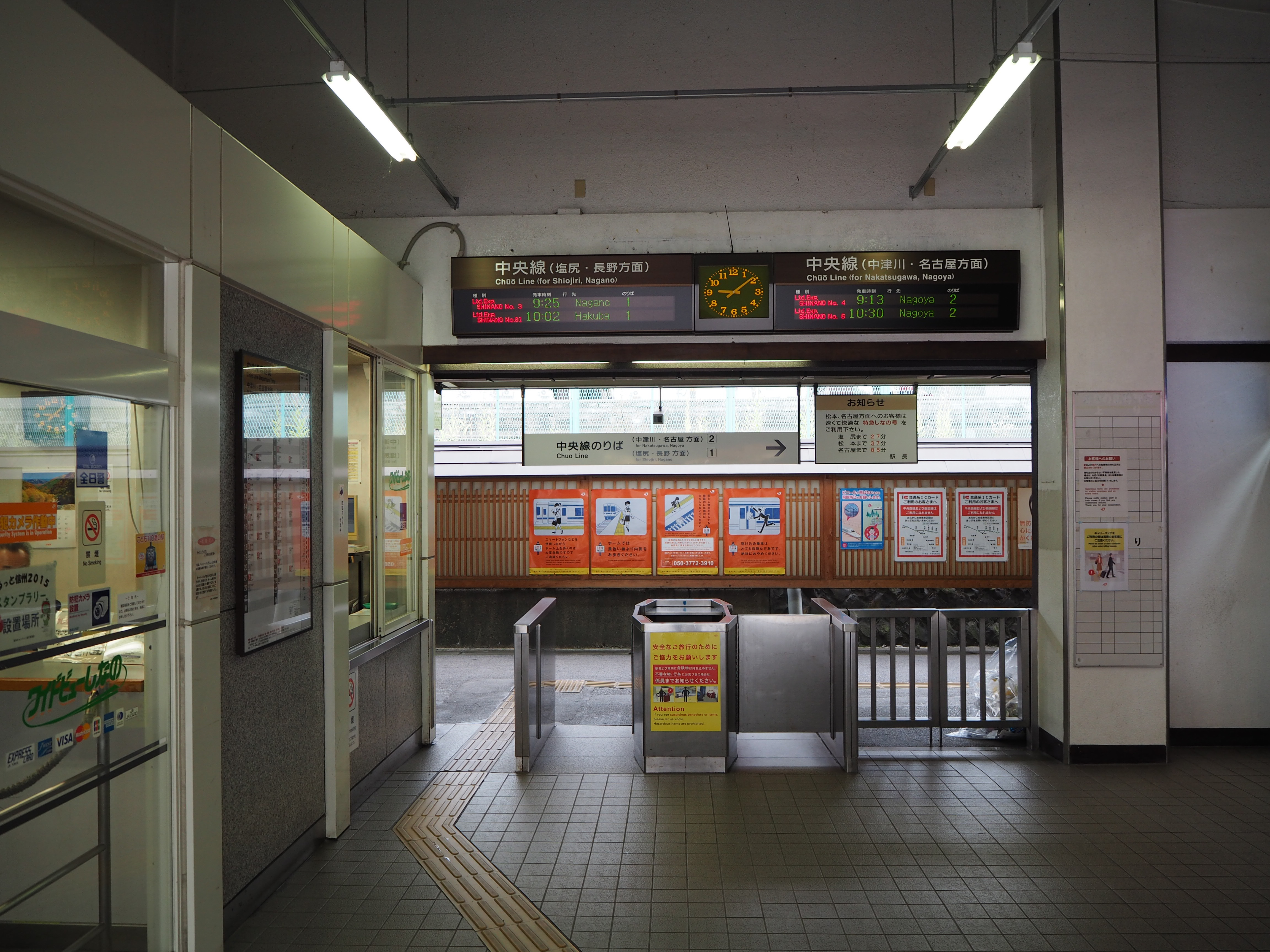 Ticket gate of Kiso-fukushima Station